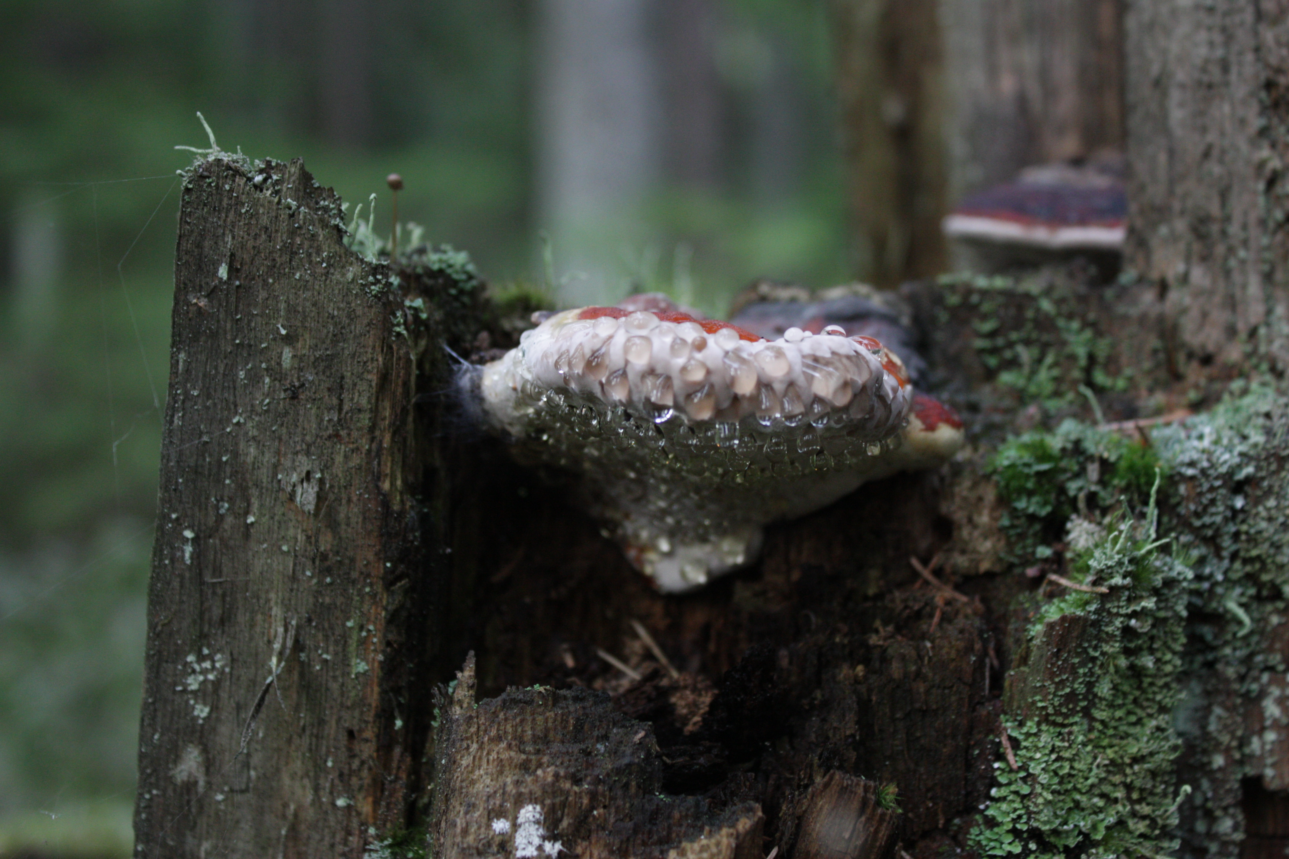 A Red Banded Polypore (Fomitopsis pinicola) growing on a spruce stump in Pukkipalo old-growth forest in Kurjenrahka National Park, Finland.